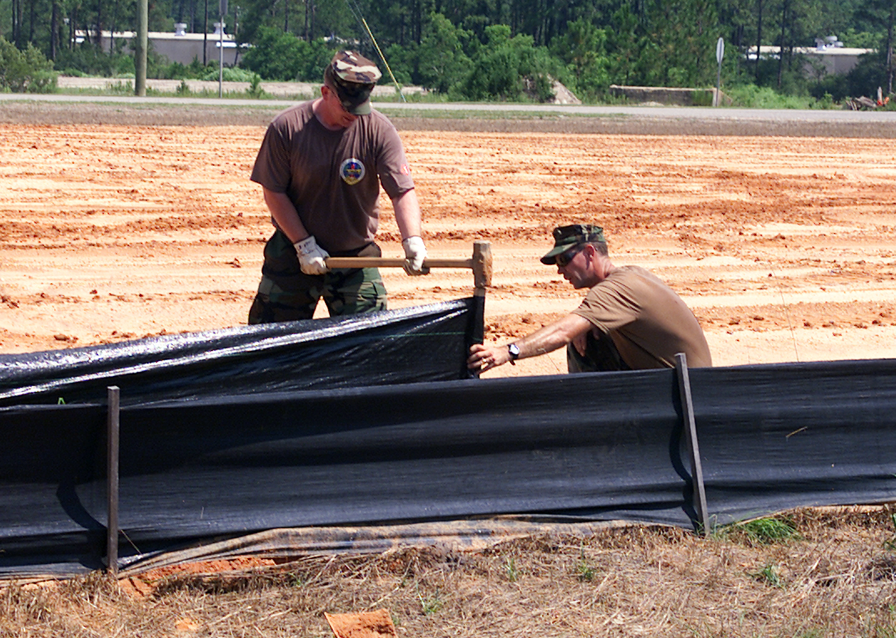 Gulfport, Miss. (July 8, 2005) – U.S. Navy Seabees set up a barrier to retain loose topsoil in preparation of the arrival of Hurricane Dennis on board Naval Construction Battalion Center Gulfport. As of 8 a.m. EDT (1200 GMT), Dennis, a Category 4 hurricane, was located 230 miles southeast of Havana, Cuba, and about 285 miles south-southeast of Key West, Florida. The storm is moving northwest at 12 mph, but is expected to start moving west-northwest. Dennis is expected to make landfall along the Gulf Coast Sunday. The Atlantic hurricane season began June 1 and ends Nov. 30. U.S. Navy photo by Photographer’s Mate 1st Class Sean Mulligan (RELEASED) For more information visit